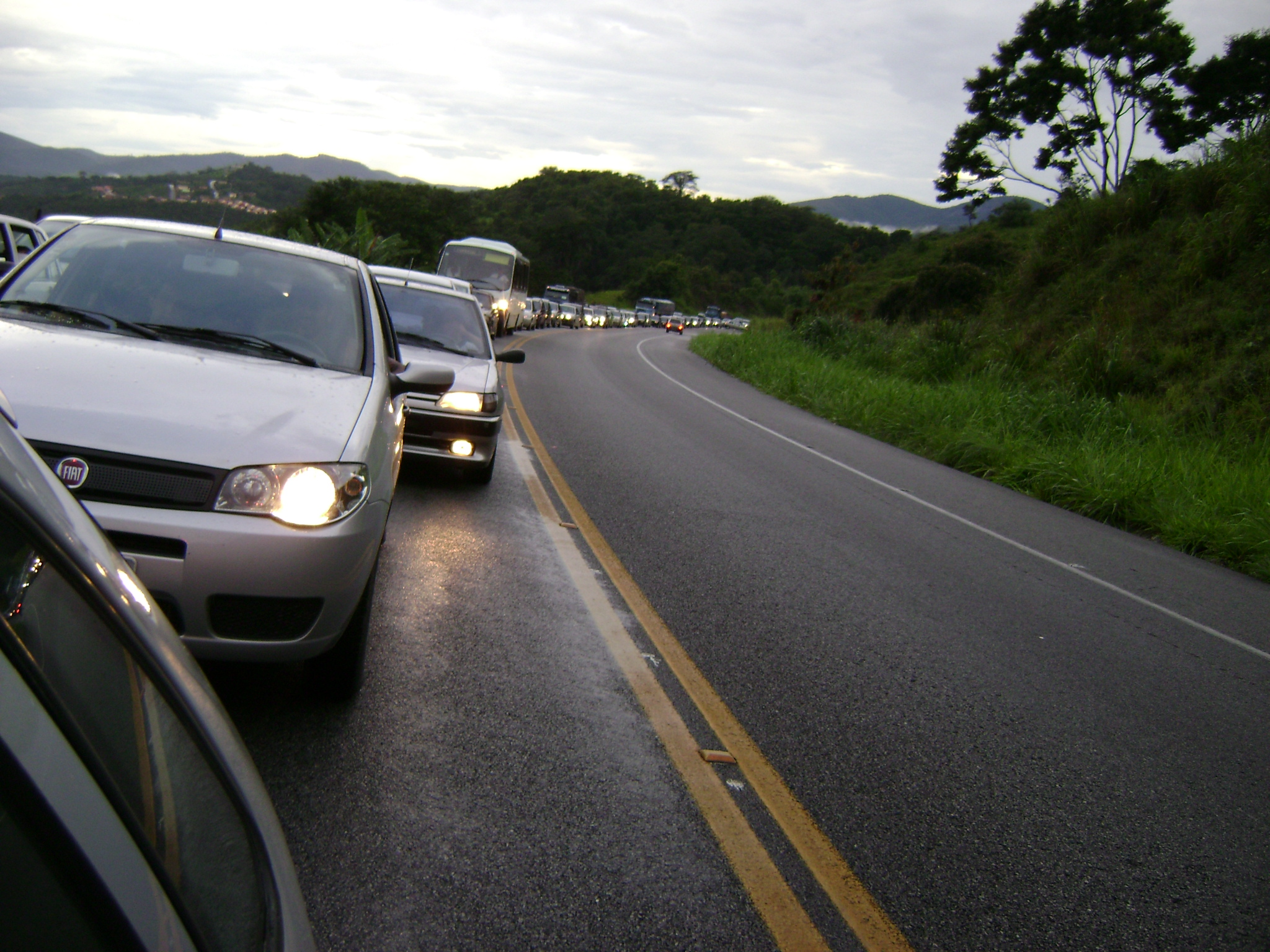 Engarrafamento na BR-381, próximo a Belo Horizonte (ao leste desta cidade).